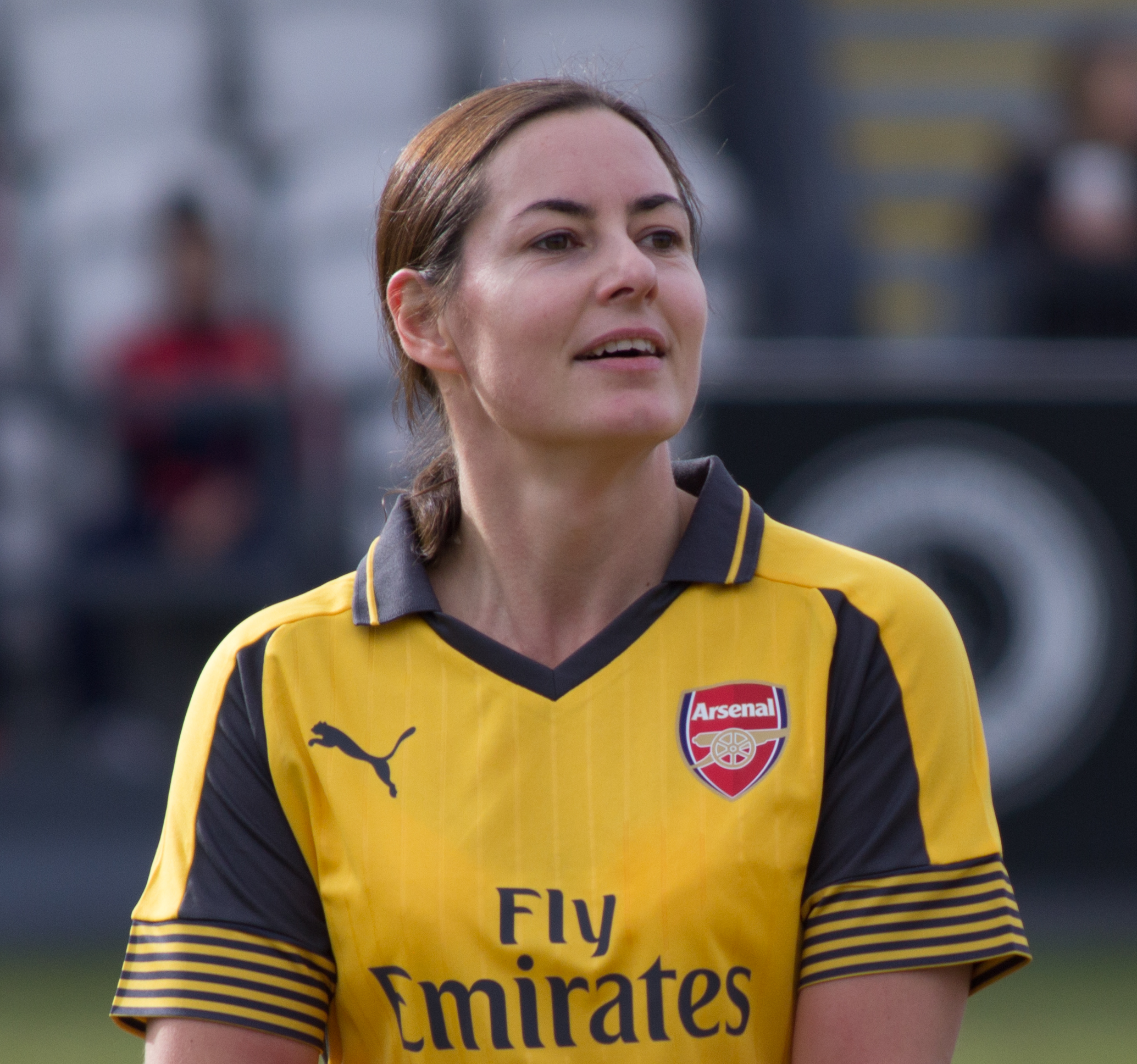 Arsenal LFC (Red) v Kelly Smith All-Stars XI (Yellow), 19 February 2017 – warmups